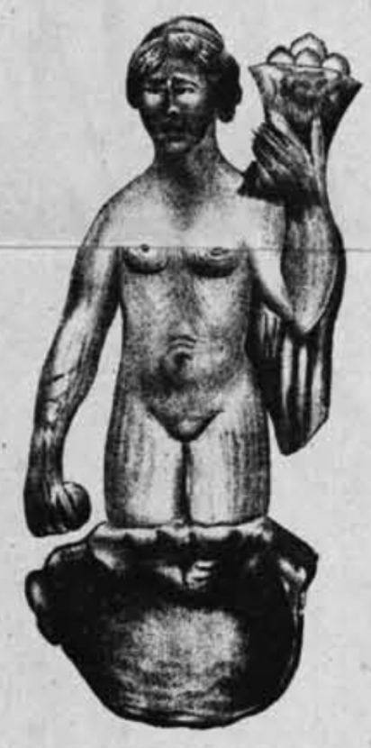 Engraving of a bronze statue, found on the roman ruins of Boca do Rio, in Algarve, Portugal. This image was published in the work "O Archeologo Português", volume XV, of 1910, provided by Direcção Geral do Património Cultural.